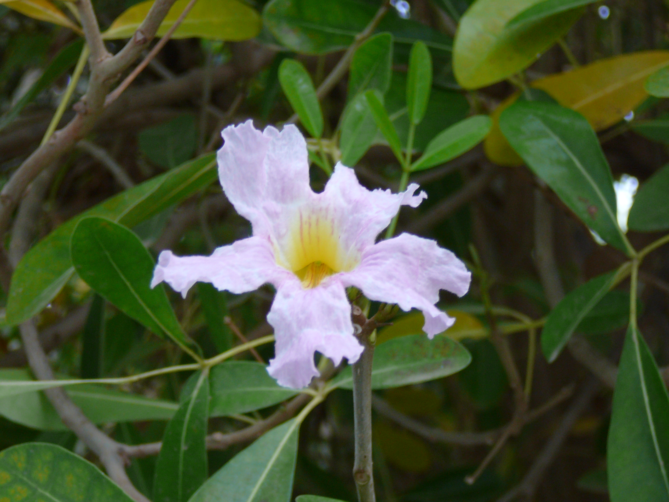 Rosy Trumpet Tree, Pink poui, Pink Tecoma tree